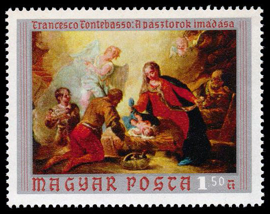 Paintings - Adoration of the Shepherds Denomination: 1.50 Forint